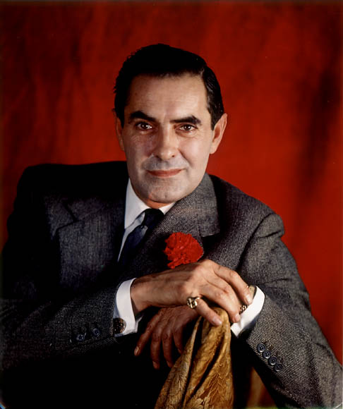 Tyrone Power, actor